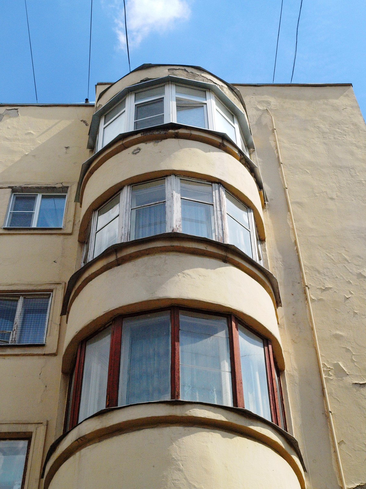 Aviamotornaya Street, Moscow.